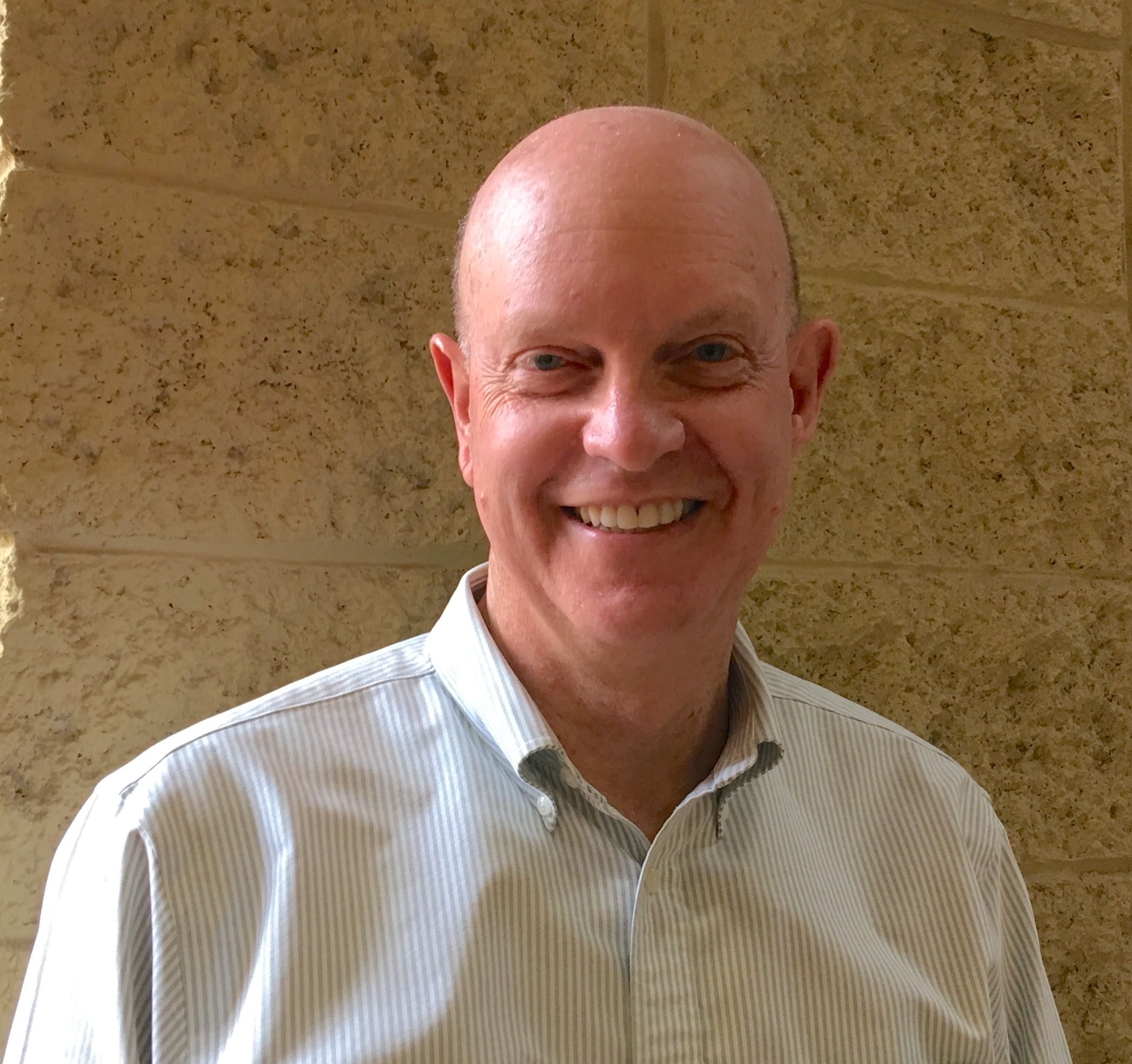 Stanford neuroscientist Brian Wandell March 7, 2019, at Arizona State University SciAPP conference where he gave a talk about color appearance, light, and perception.